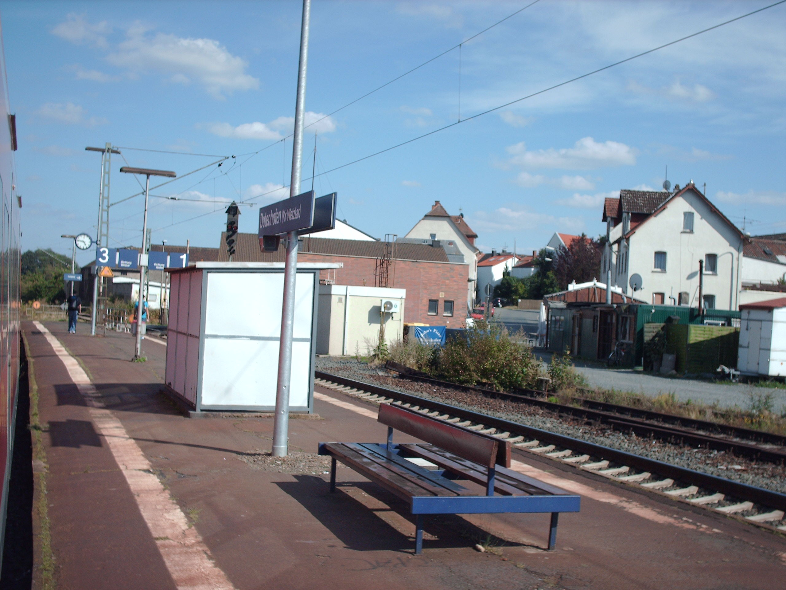 Dutenhofen (Kr Wetzlar) station, Wetzlar, Germany check usage